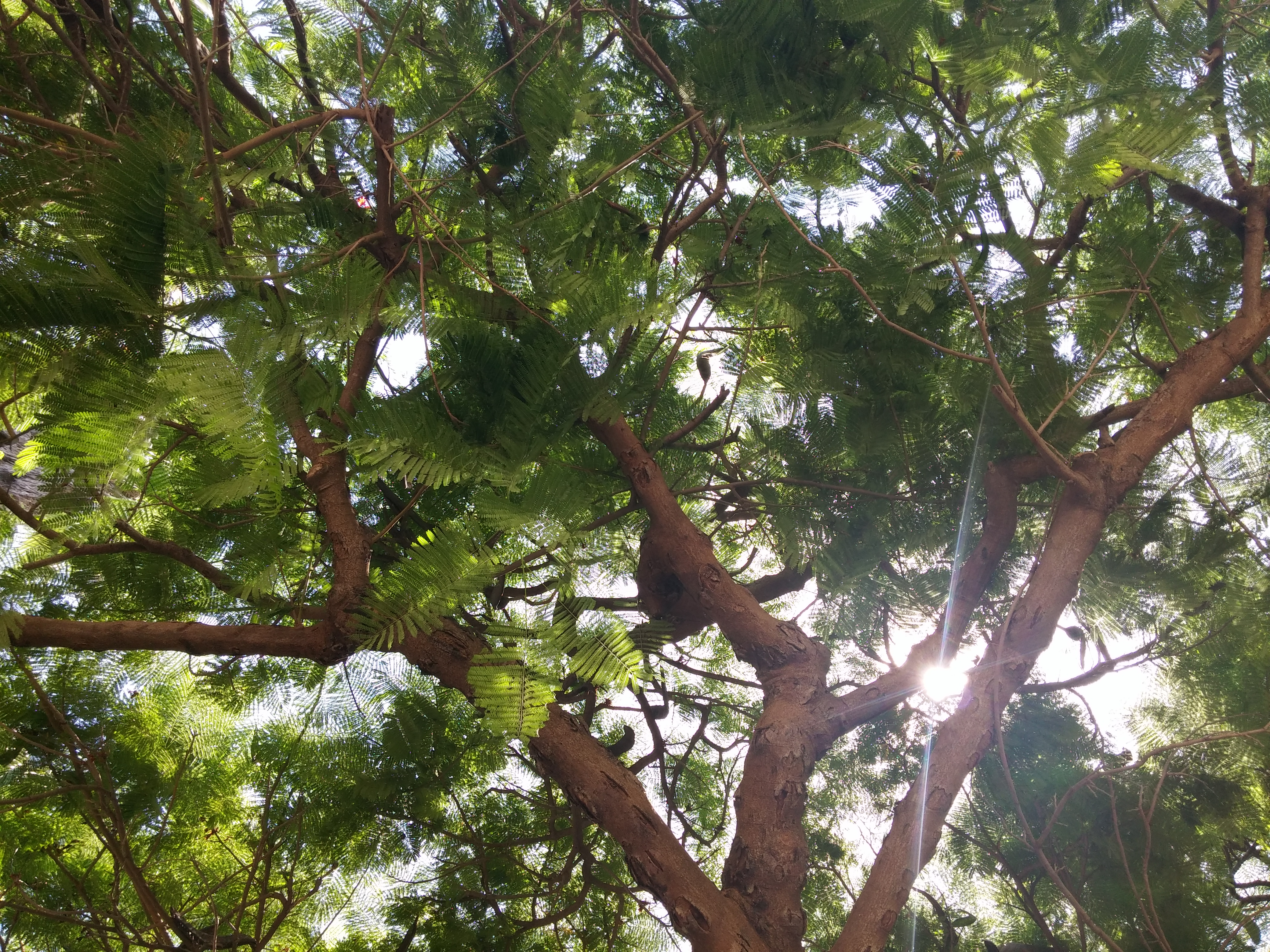 Flora of Israel